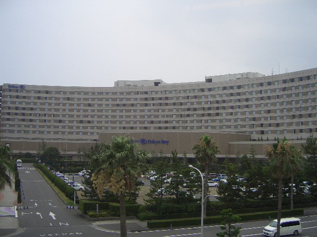 This is a picture of "Hilton Tokyo Bay" I took from "Disney RESORT LINE".